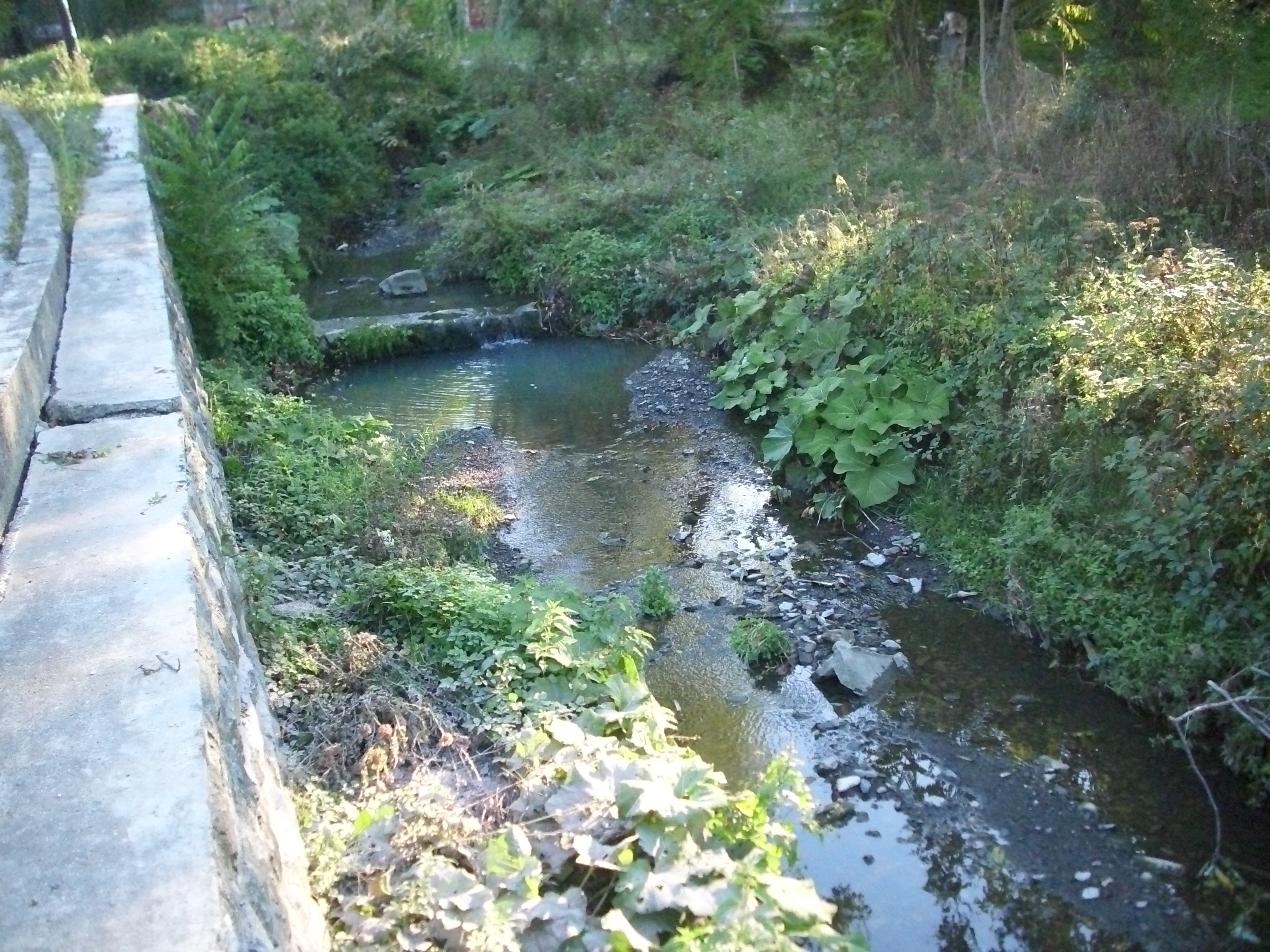 Grošnica river in Grošnica